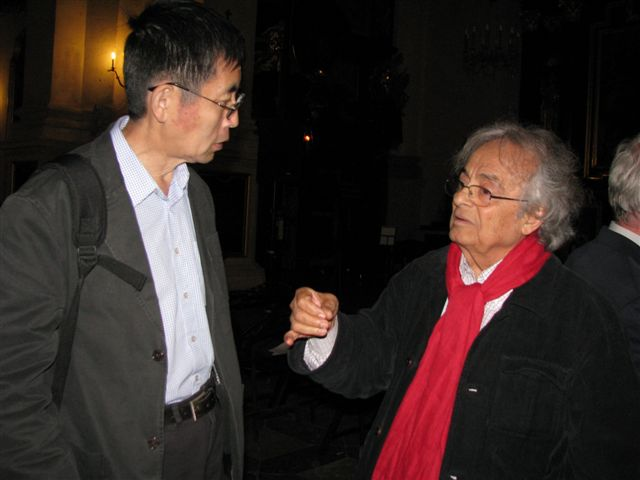 Adonis (Ali Ahmad Said Esber, born 1 January 1930), is a Syrian poet, essayist, and translator. He lives in France. Bei Dao (born August 2, 1949) is the pen name of Chinese poet Zhao Zhenkai.